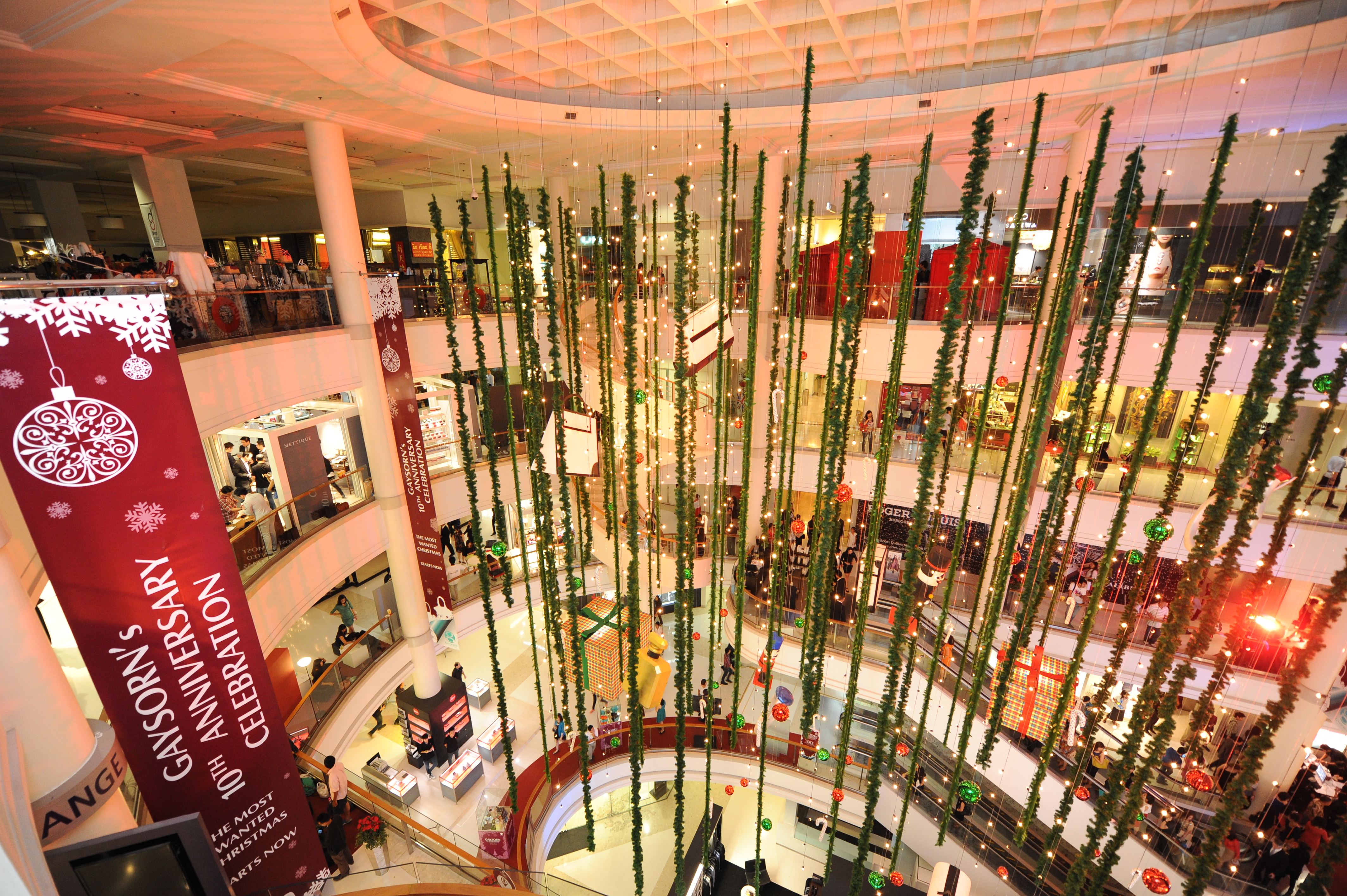 In side Gaysorn shopping centre